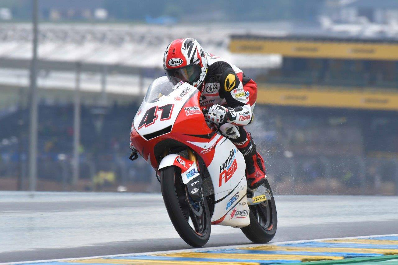 Moto3 French 2017 motorcycle Grand Prix